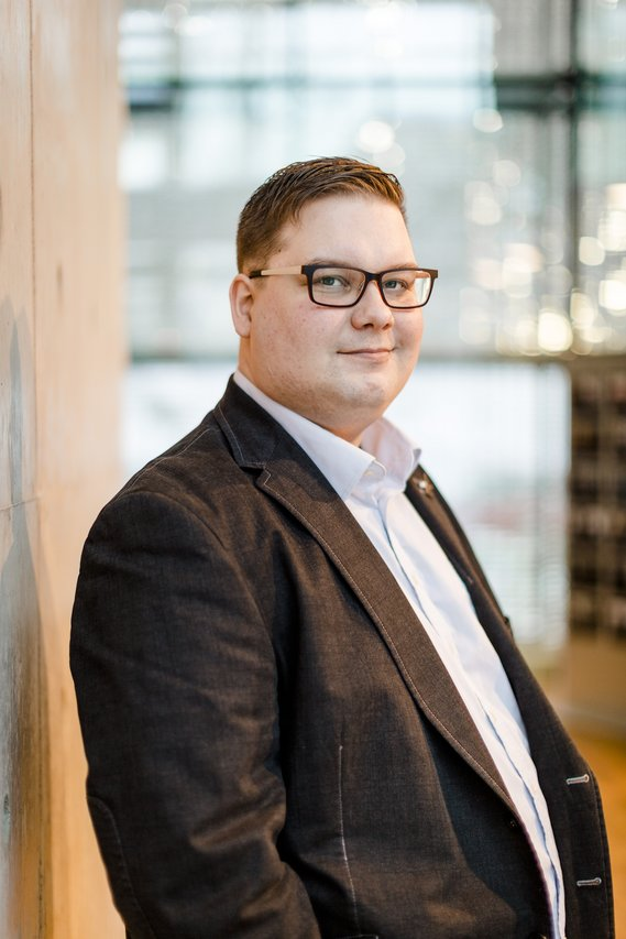 Jussi Pekka Kasurinen in his previous work as a researcher at Lappeenranta University of Technology.